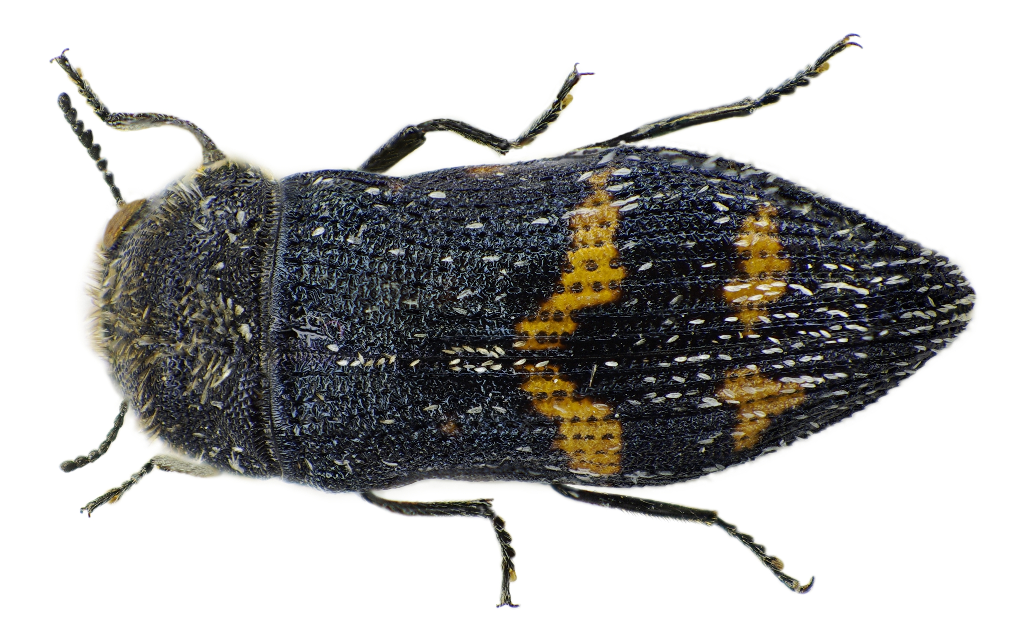 Acmaeoderella mimonti from Greece